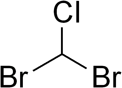 chemical structure of dibromochloromethane